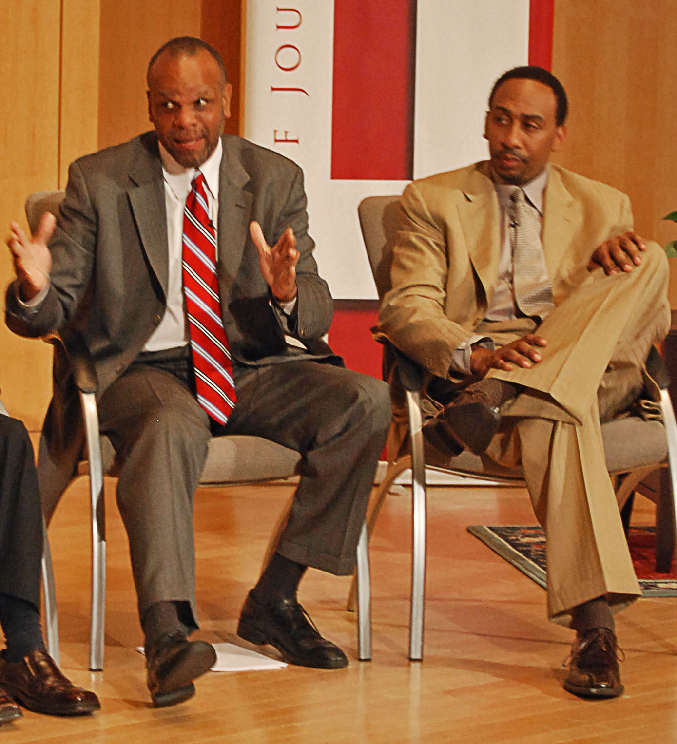 New York Times Columnist William C. Rhoden discusses how a lack of diversity is negatively affecting sports media coverage during a National Sports Journalism Center event in Sept. 2009 at IUPUI. Seated to his right is former ESPN and current MSNBC commentator Stephen A. Smith.